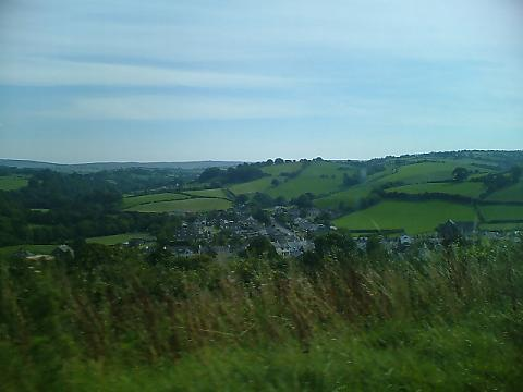 Llansannan from the road above the village Llansannan from the road above the village by